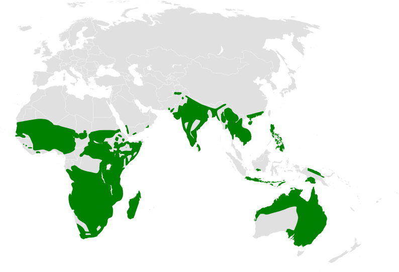 Mirafra distribution map; using BlankMap-World6.svg, based on and